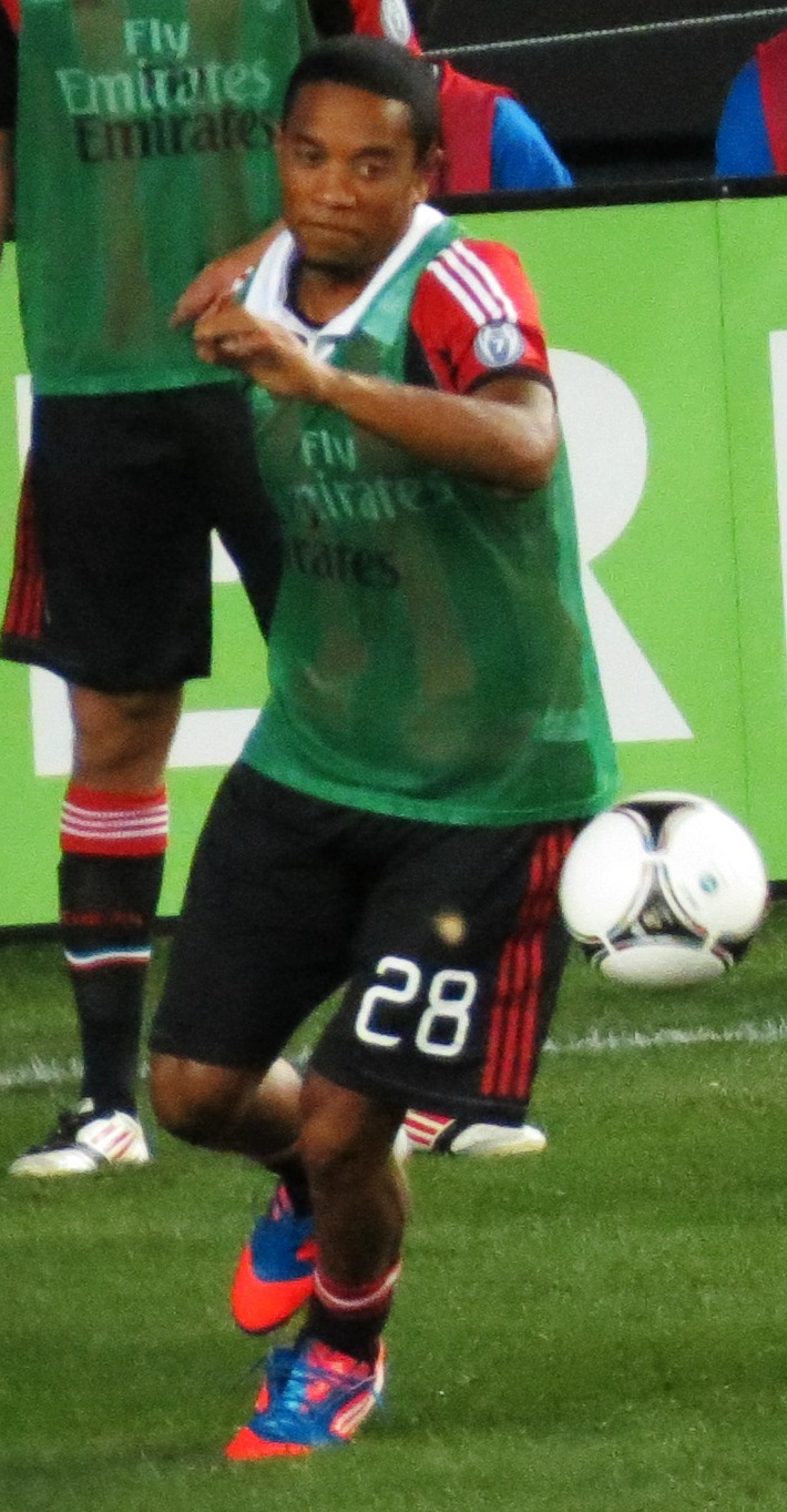 Urby Emanuelson of AC Milan.